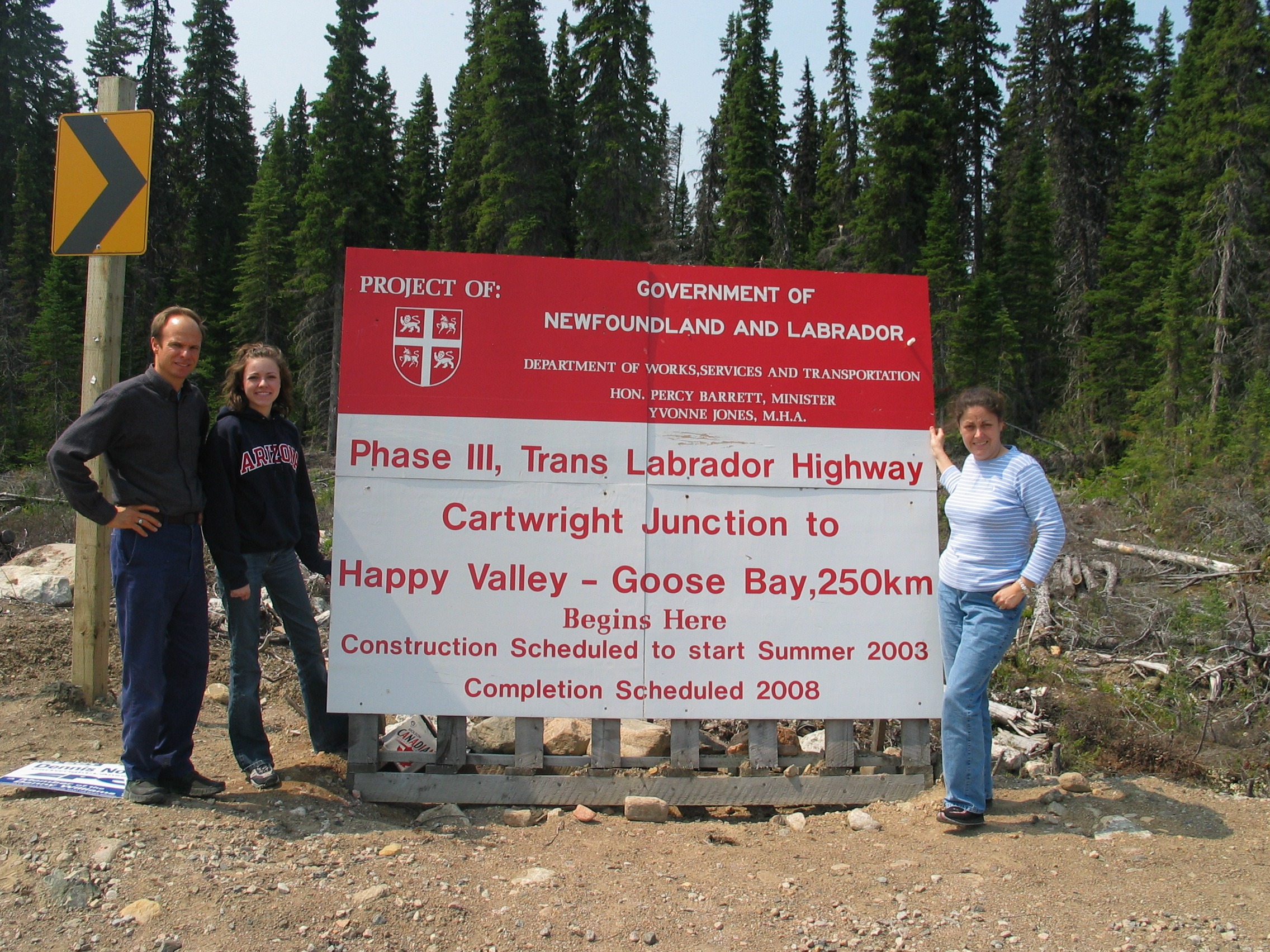 Throneberry Family vacation July, 2004